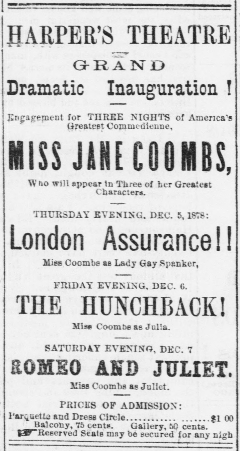 Harper's Theatre: Grand dramatic inauguration! Engagement for three nights of America's greatest commedienne Miss Jane Coombs. Dec. 5, till Dec. 7, 1878.